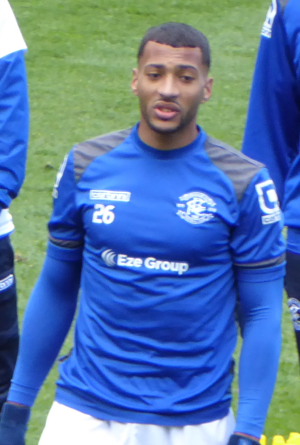 David Davis of Birmingham City Football Club warming up before a match in April 2016